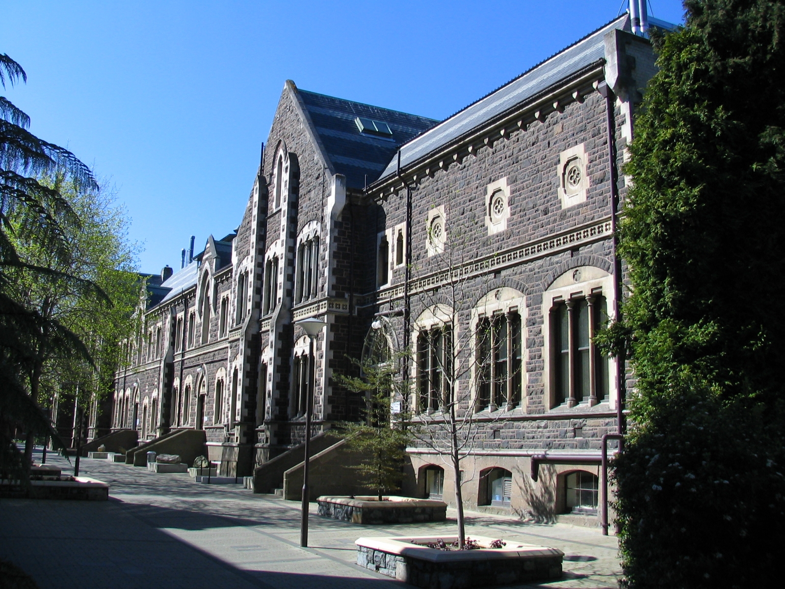 University of Otago Geology Block building, parallel to the Registry building of the University of Otago, Dunedin, New Zealand. New Zealand Historic Places Trust Register number: 4765.